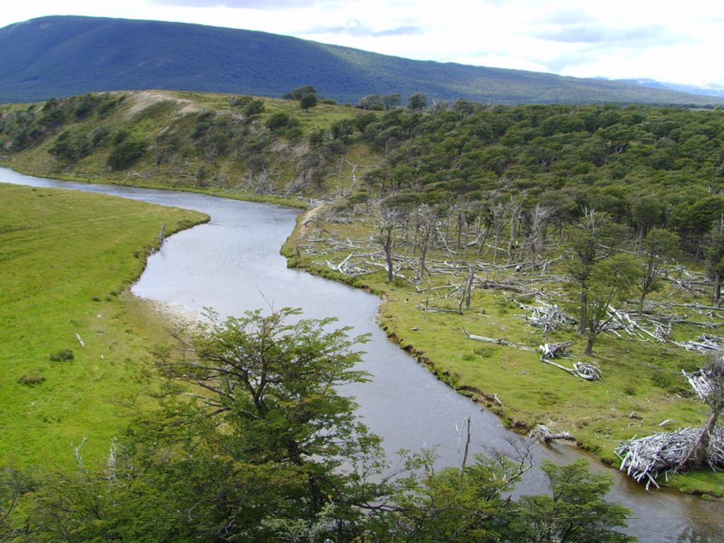 Landscape in southern Tierra del Fuego, Argentina